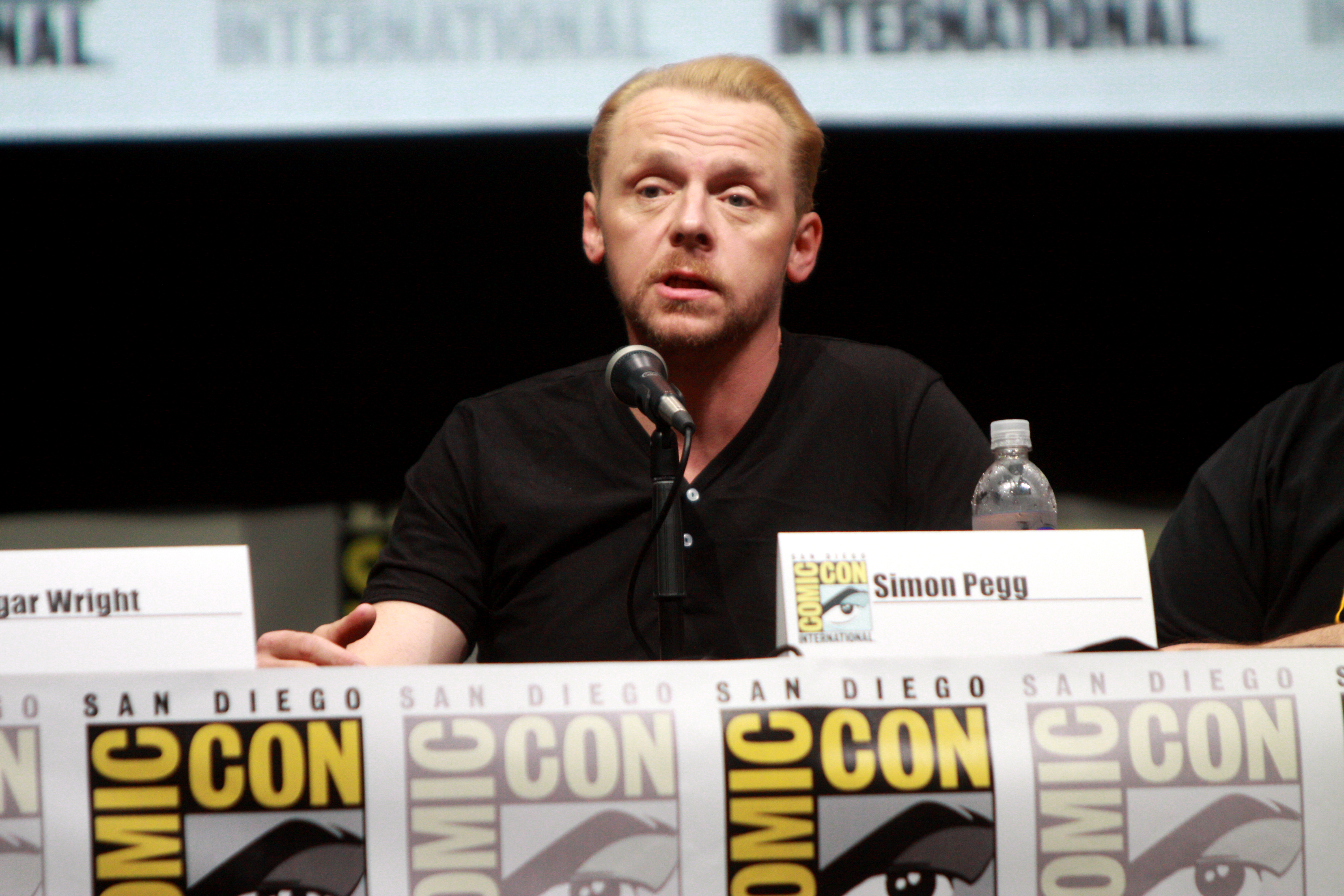 Simon Pegg speaking at the 2013 San Diego Comic Con International, for "The World's End", at the San Diego Convention Center in San Diego, California.